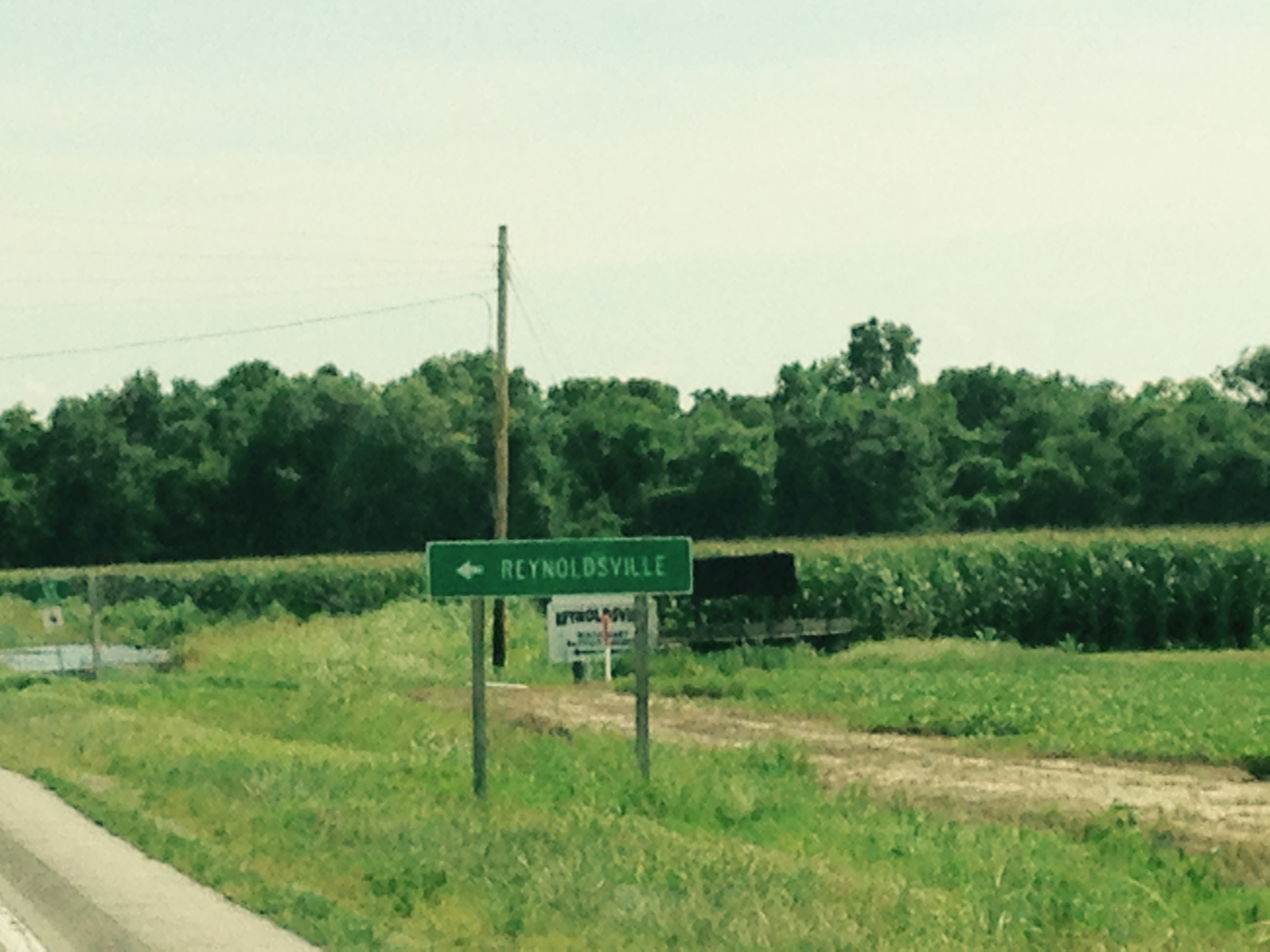 Reynoldsville, Illinois, Illinois Route 3 sign